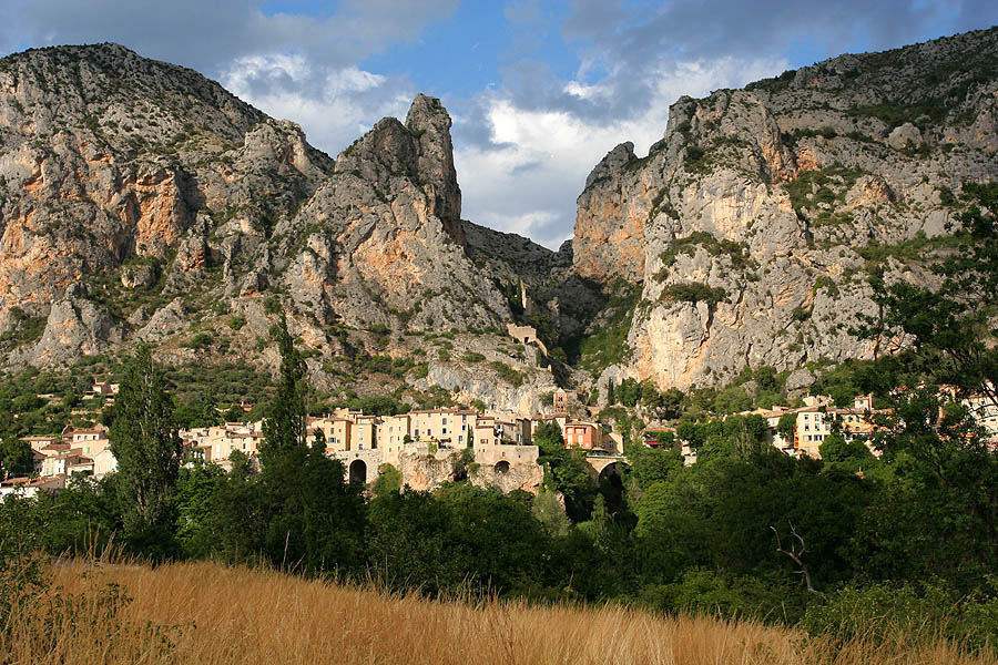 A distance view of Moustiers-Ste-Marie, Alpes-de-Haute-Provence, France, with a high limestone cliff serves as its backdrop.